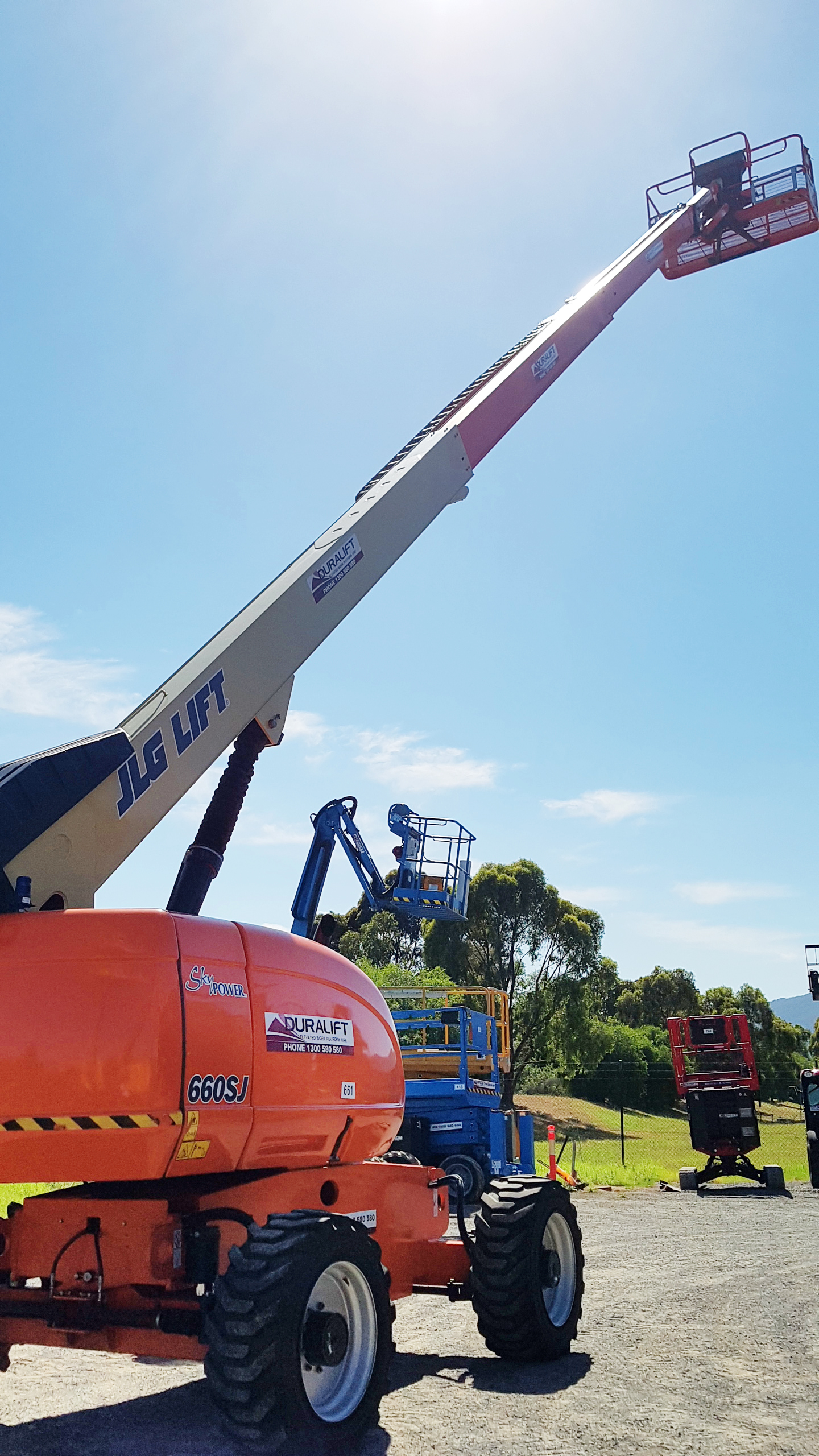 Straight Boom Lift with telescopic boom extended and rough terrain tyres at Duralift Access Hire in Melbourne